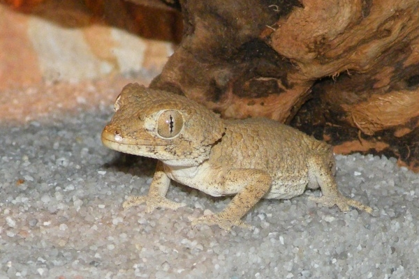 Tarentola Chazaliae